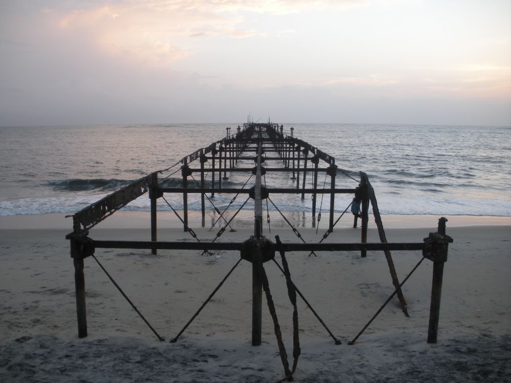 Alleppey Sea Bridge